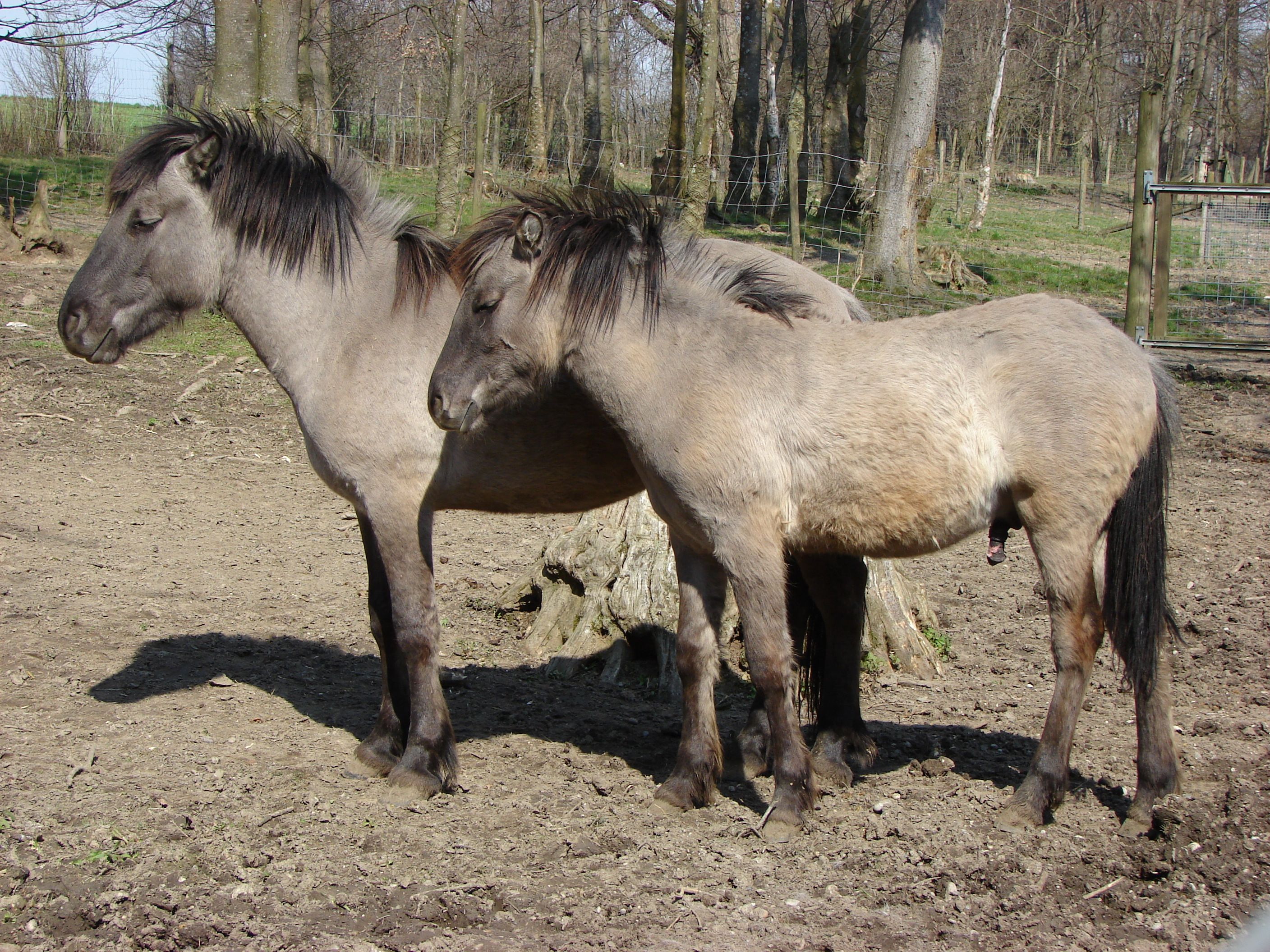 Two Heck horses in the zoo of Stadt Haag, Austria.